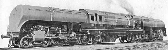 PLM-A then CFA Garratt locomotive 231+132 BT, 1936, standard gauge.